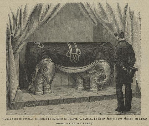 Casket of the 1st Marquis of Pombal, in Mercês Church, Lisbon, 1882.